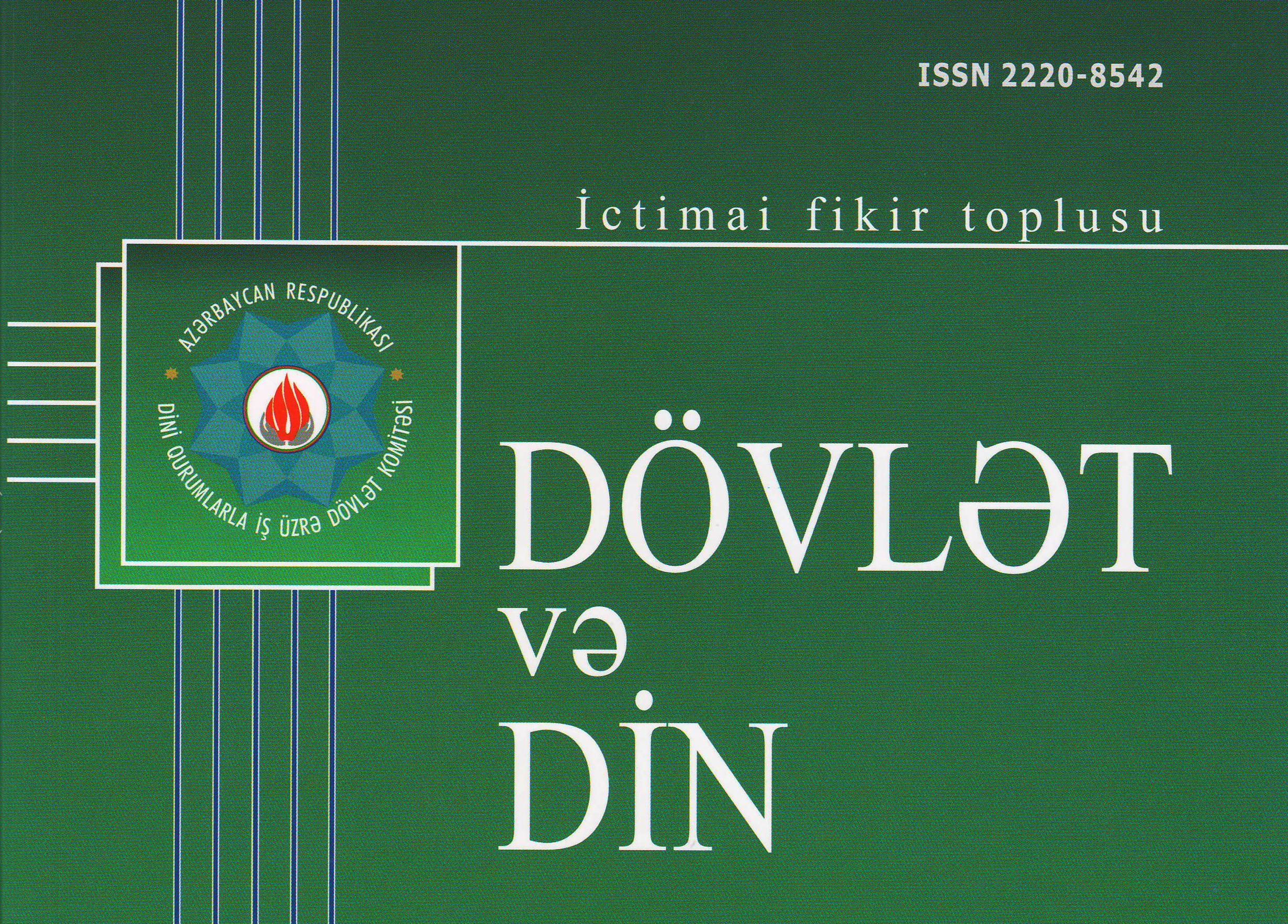 "Dövlət və Din" İctimai fikir toplusu